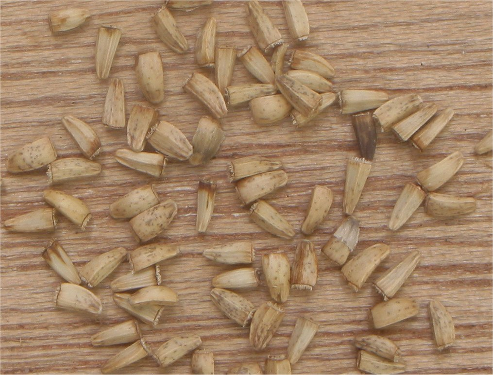 Witlof Cichorium intybus var. foliosum seeds